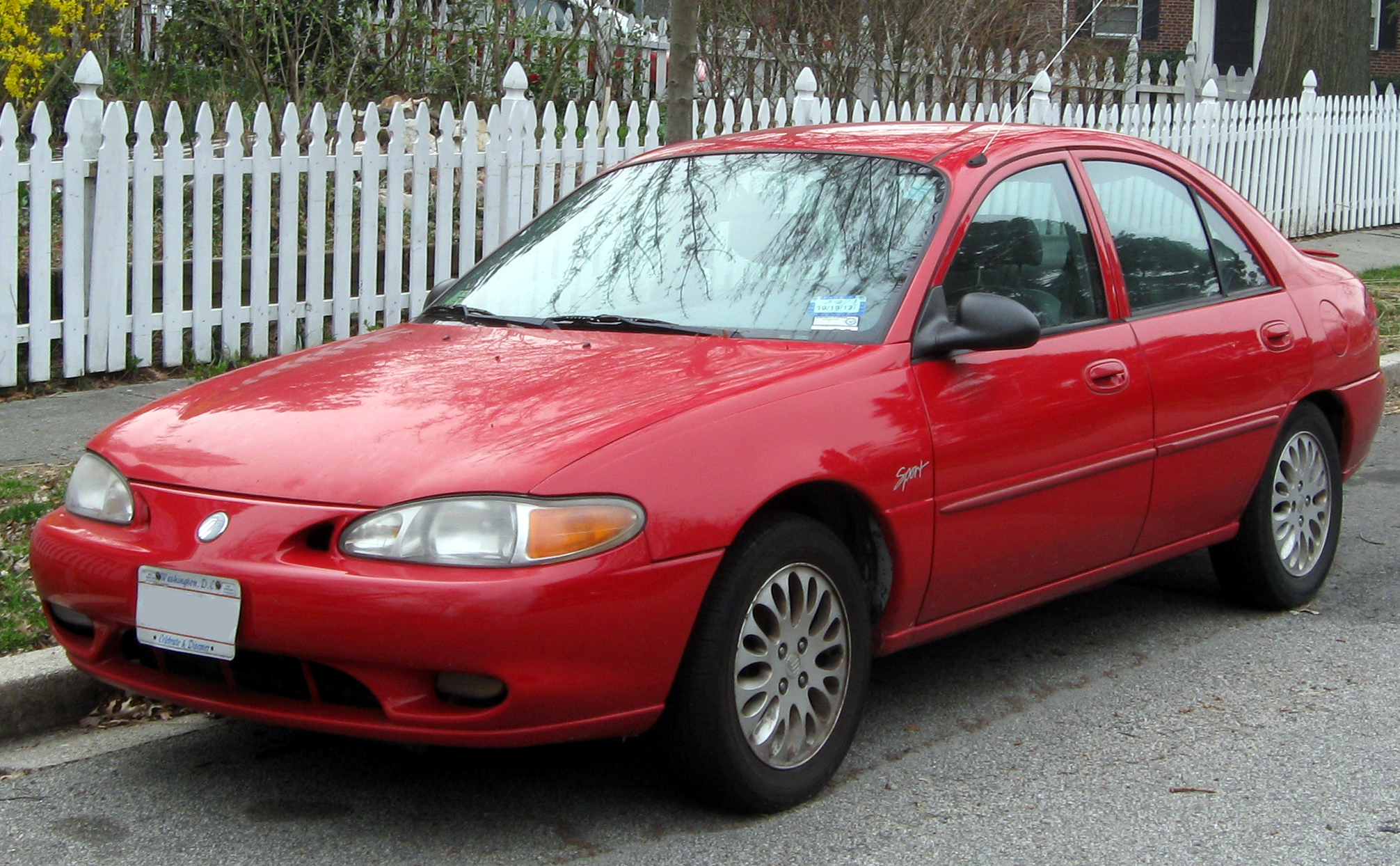 1997-1999 Mercury Tracer photographed in Washington, D.C., USA.